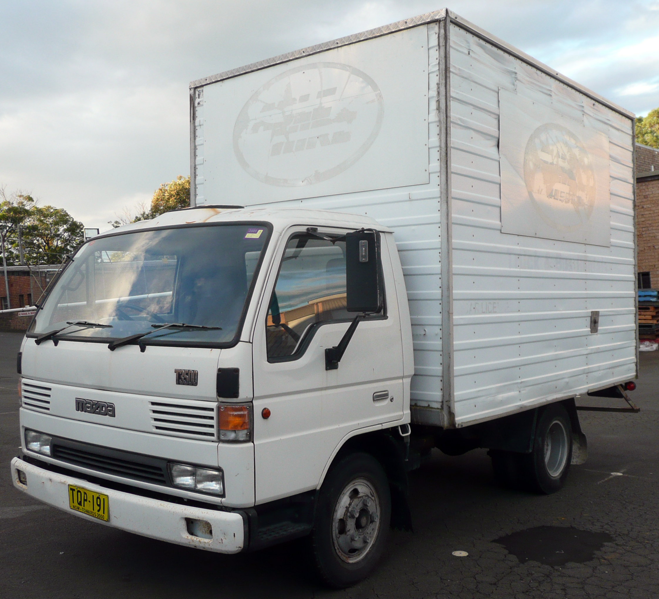 1995 Mazda T3500 2-door truck. Photographed in Kirrawee, New South Wales, Australia.